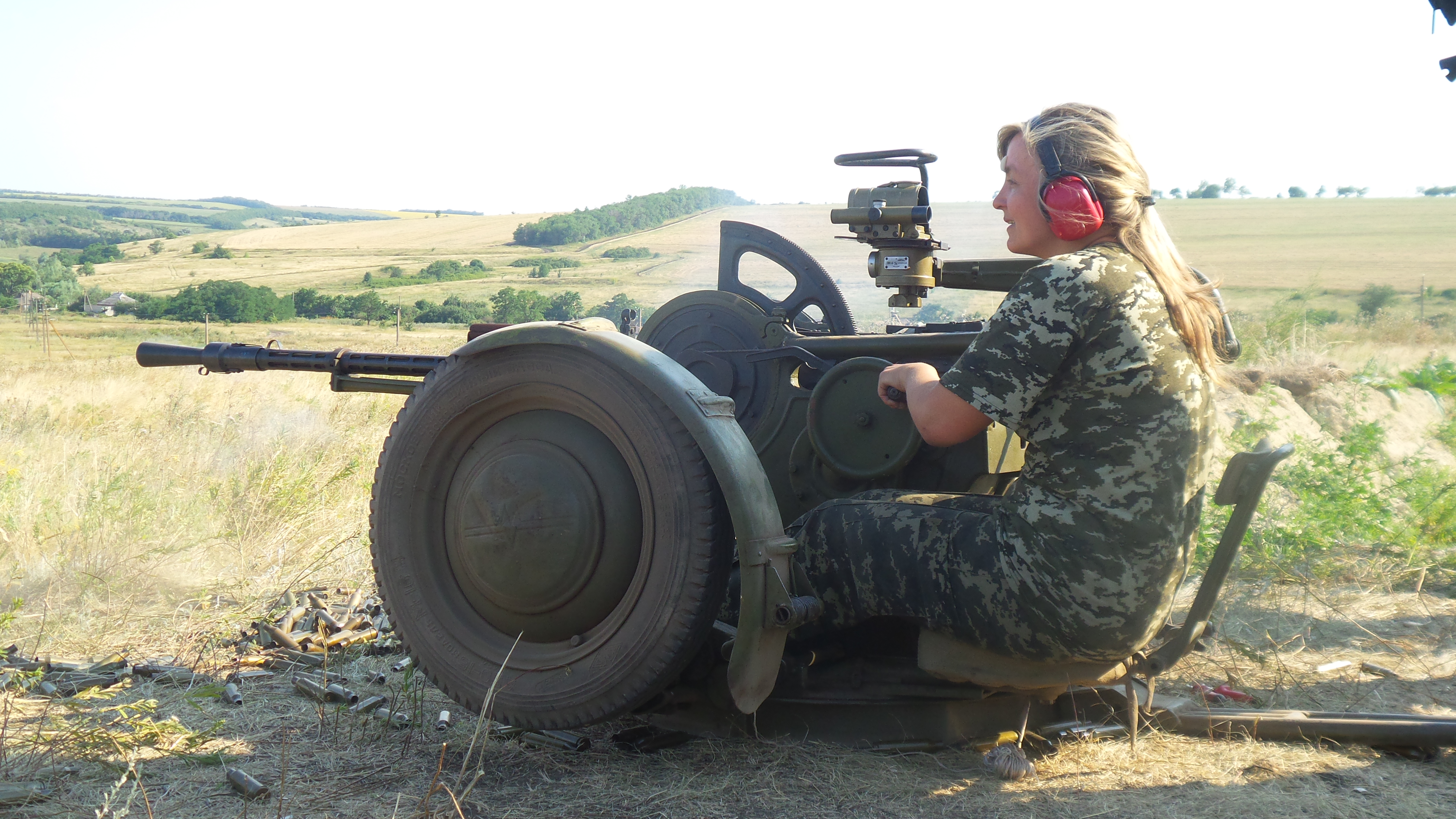 Aidar Battalion. Lugansk region, Ukraine.